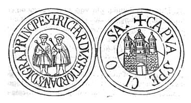 Princes of Capua Richard and Jordan